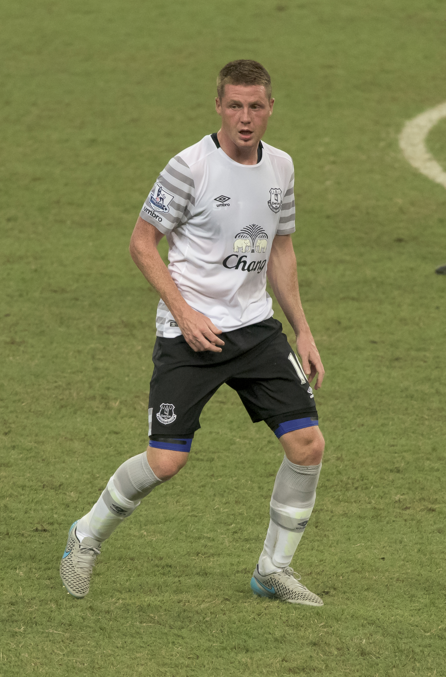 james mccarthy everton 2015 barclays asia singapore